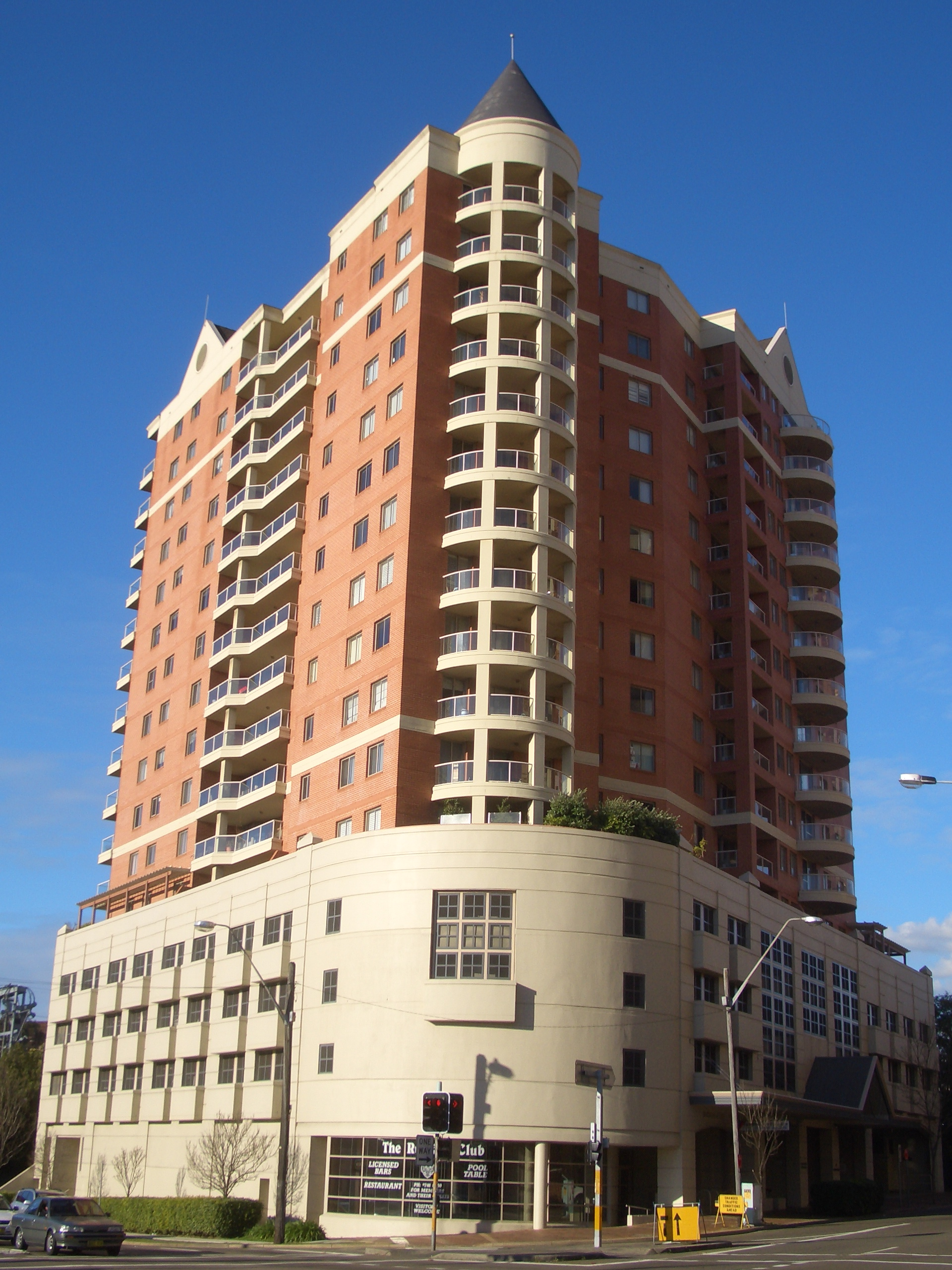 Strathfield Raw Square flats